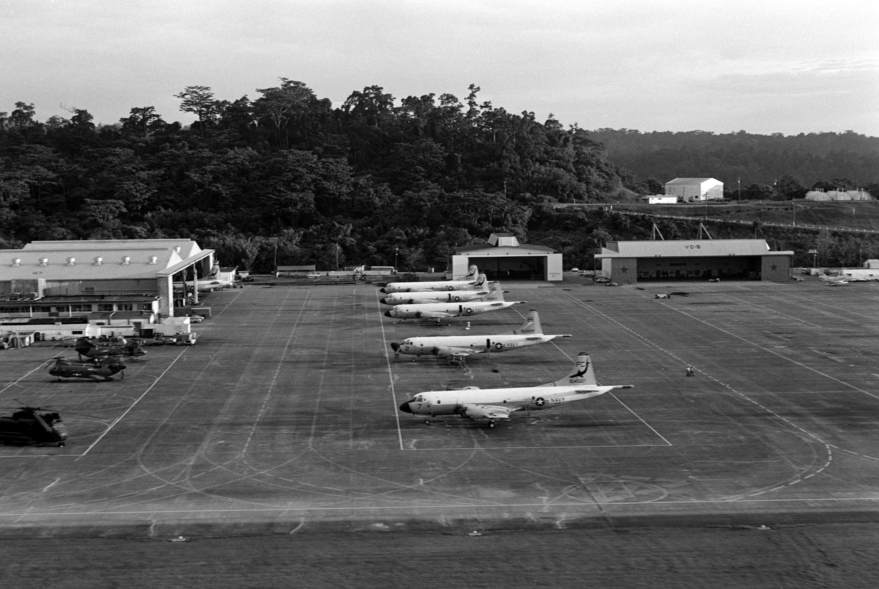 Aerial view of the U.S. Navy's Arthur W. Radford Field at Naval Air Station Cubi Point, Philippines, in 1983. Five Lockheed P-3B Orion aircraft are parked in front of a hangar, three from Patrol Squadron VP-6 (plus one in the hangar) and two from VP-17. Parked beside the hangar are two H-46 Sea Knight helicopters, right, and a CH-53D Sea Stallion helicopter. A Douglas A-4 Skyhawk is parked right of the hangar of Composite Squadron VC-5.